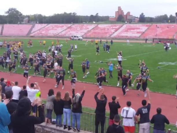 Serbian Bowl XIV (Wild Boars-Vukovi)